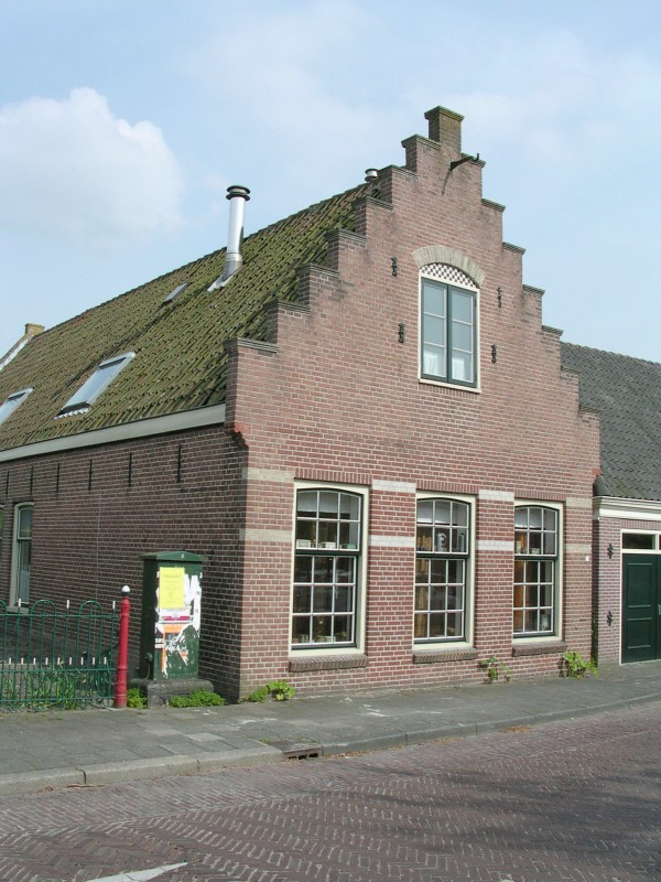 Gebouw met een trapgevel in Wognum. A building with a trapgevel, Dutch Crow stepped gable in the town of Wognum